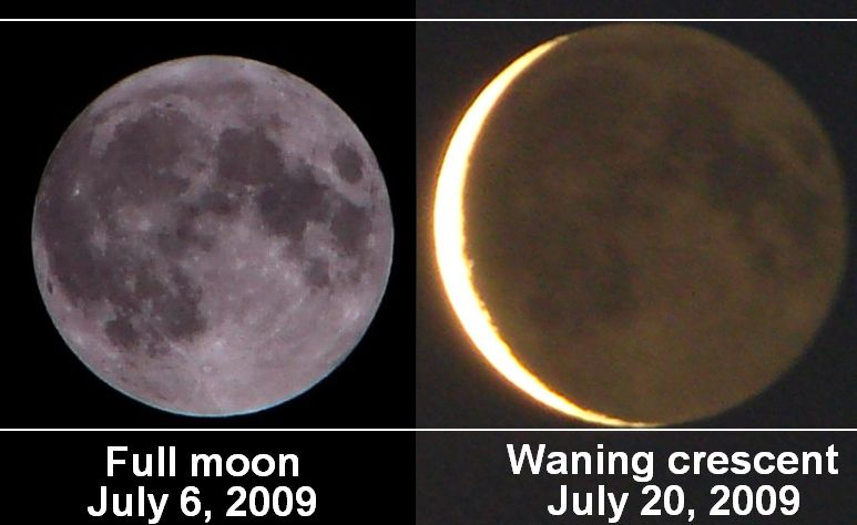 Photos of Full and near new moon to constrast apparent diameters